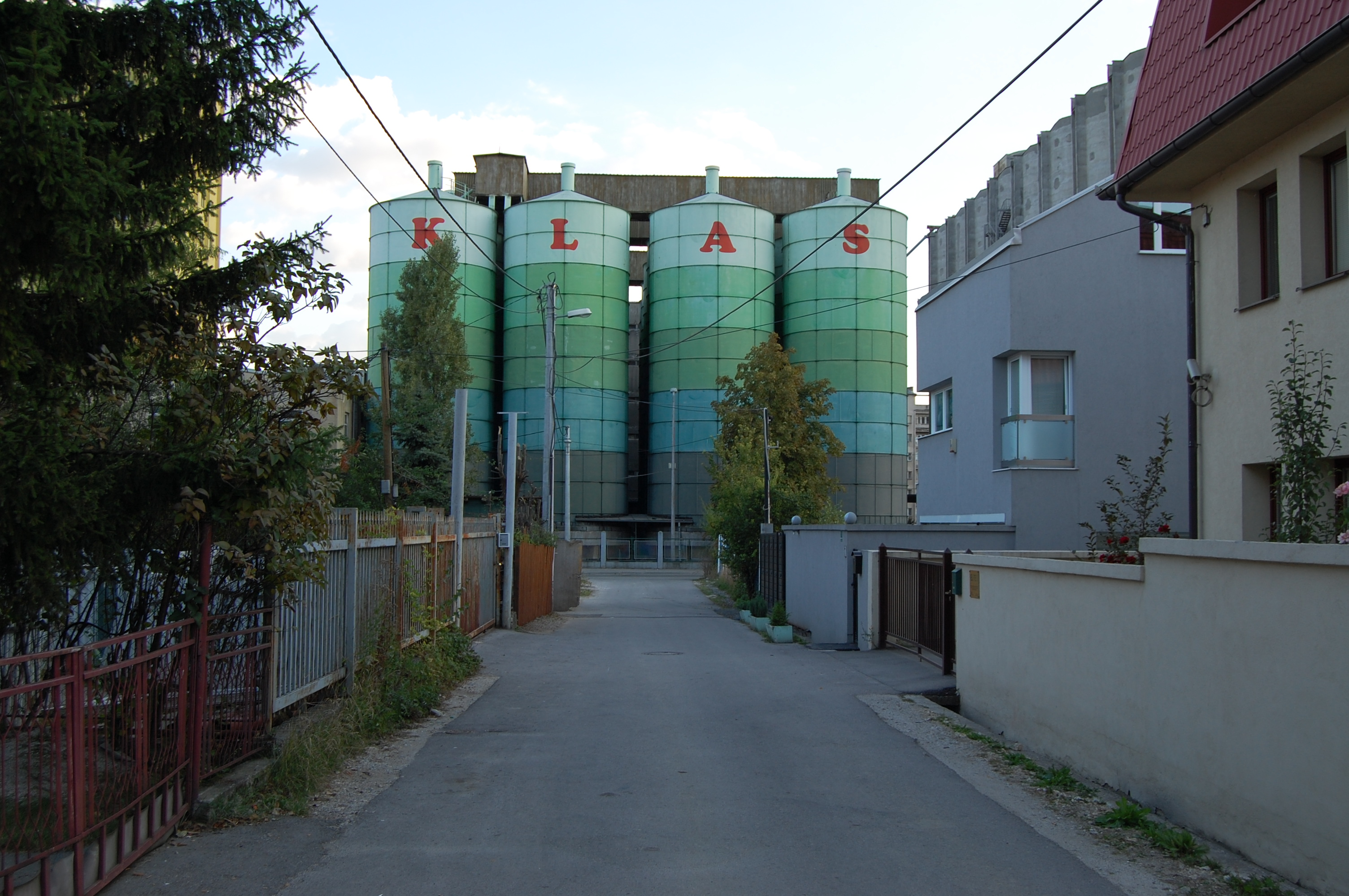 Klas d.d. Sarajevo